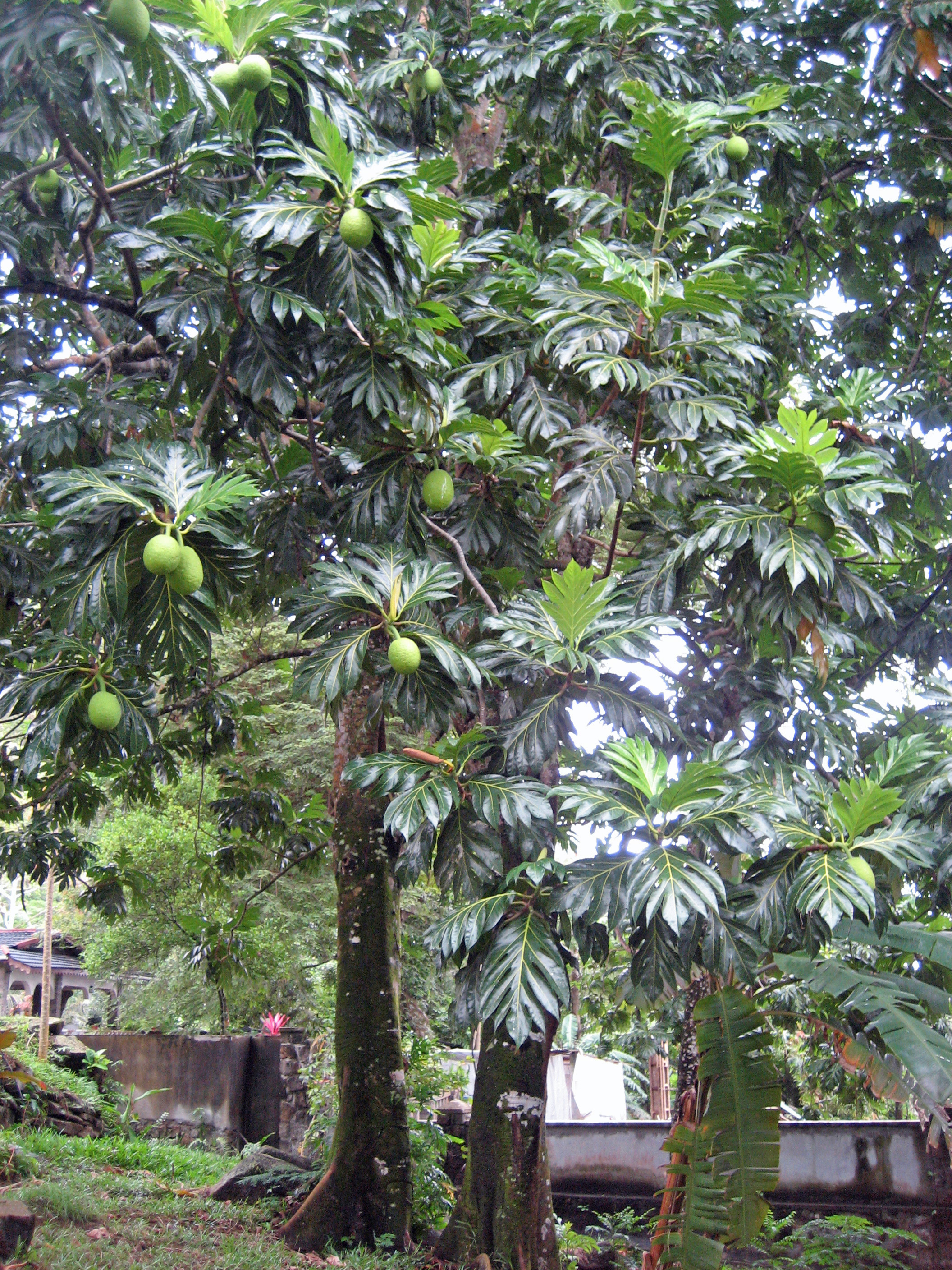 Artocarpus altilis ("Breadfruit") in Mahe, Seychelles